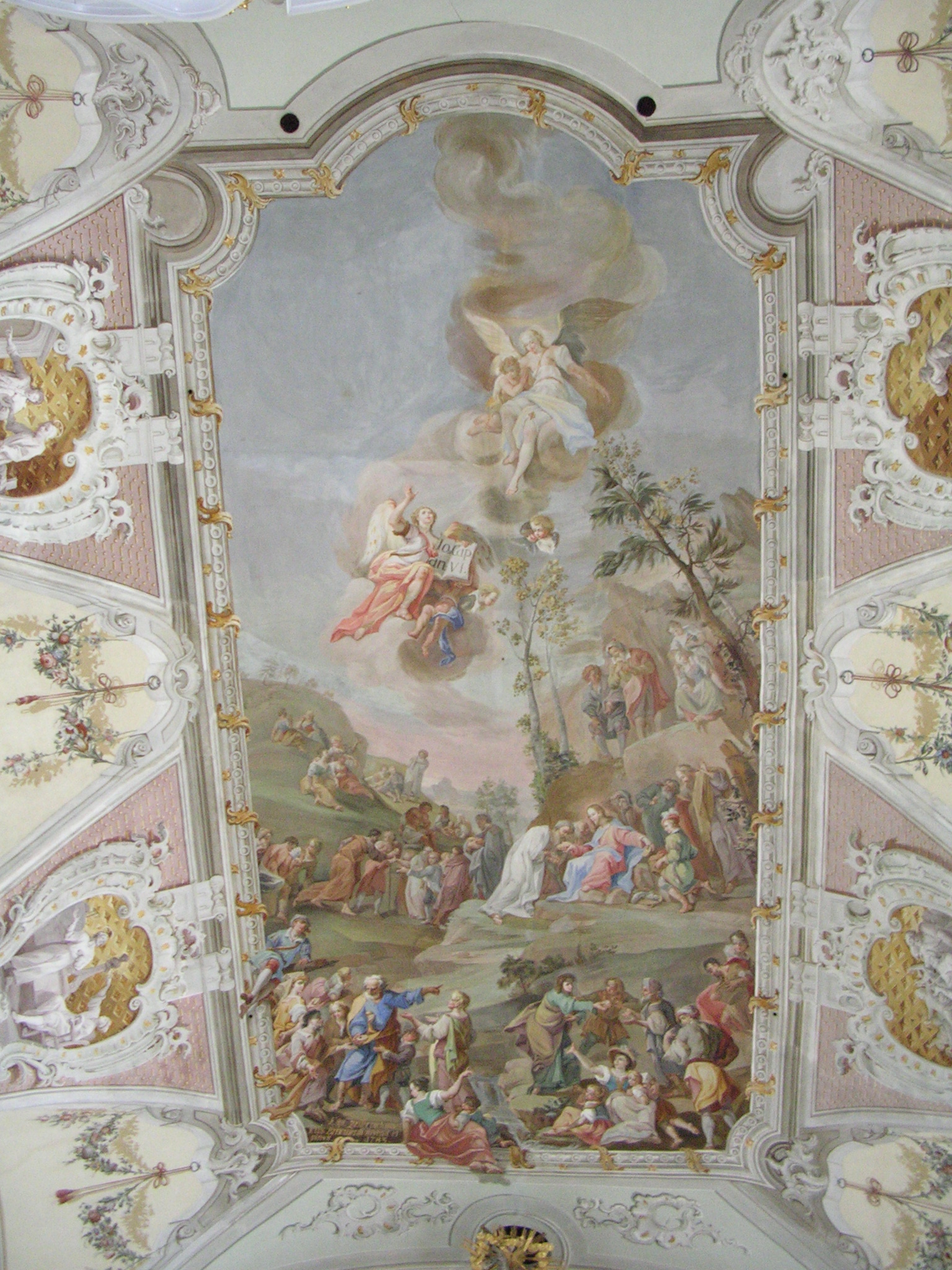 Fresko in the parish church of Matrei in Osttirol